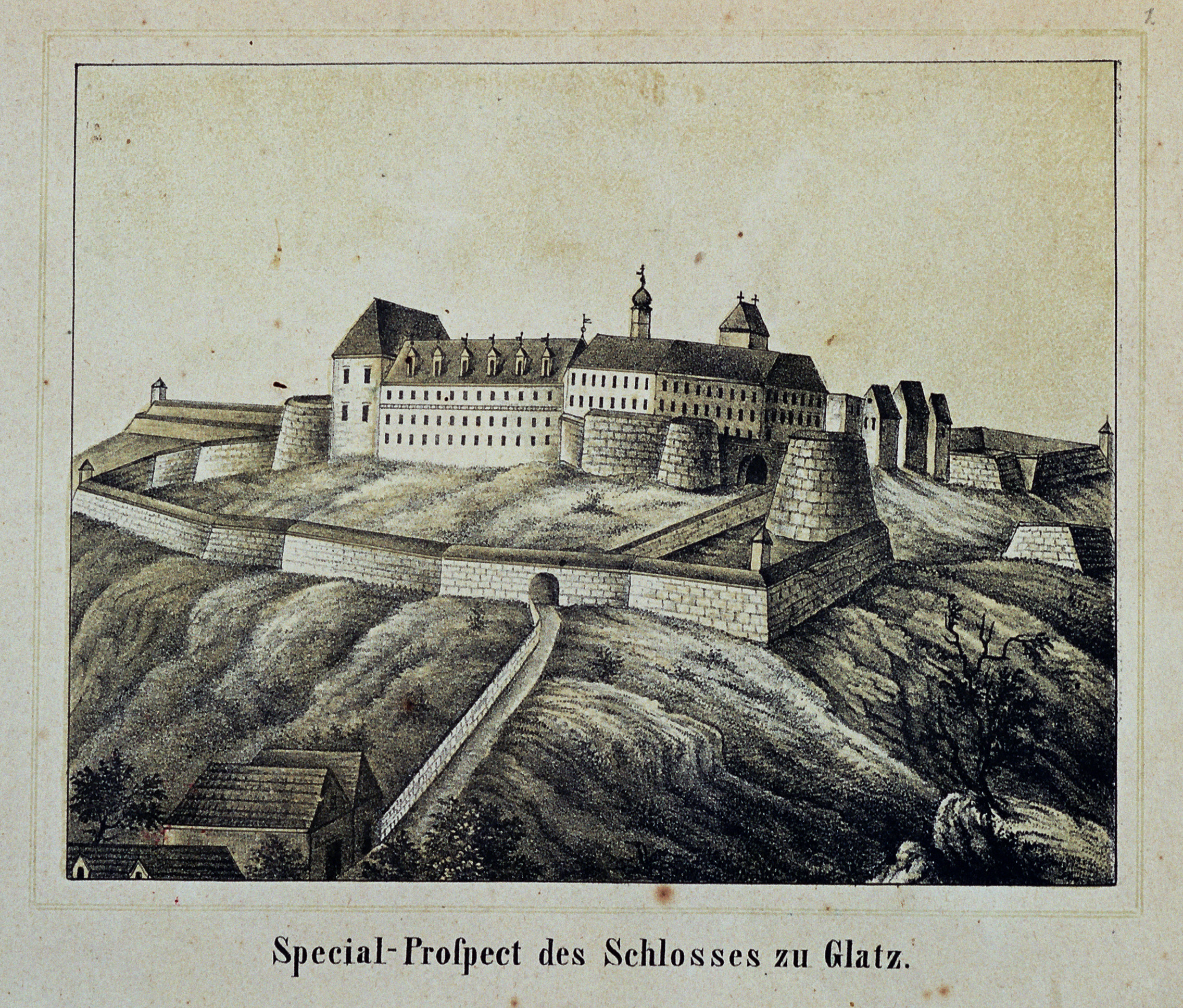 Town of Kłodzko, château.